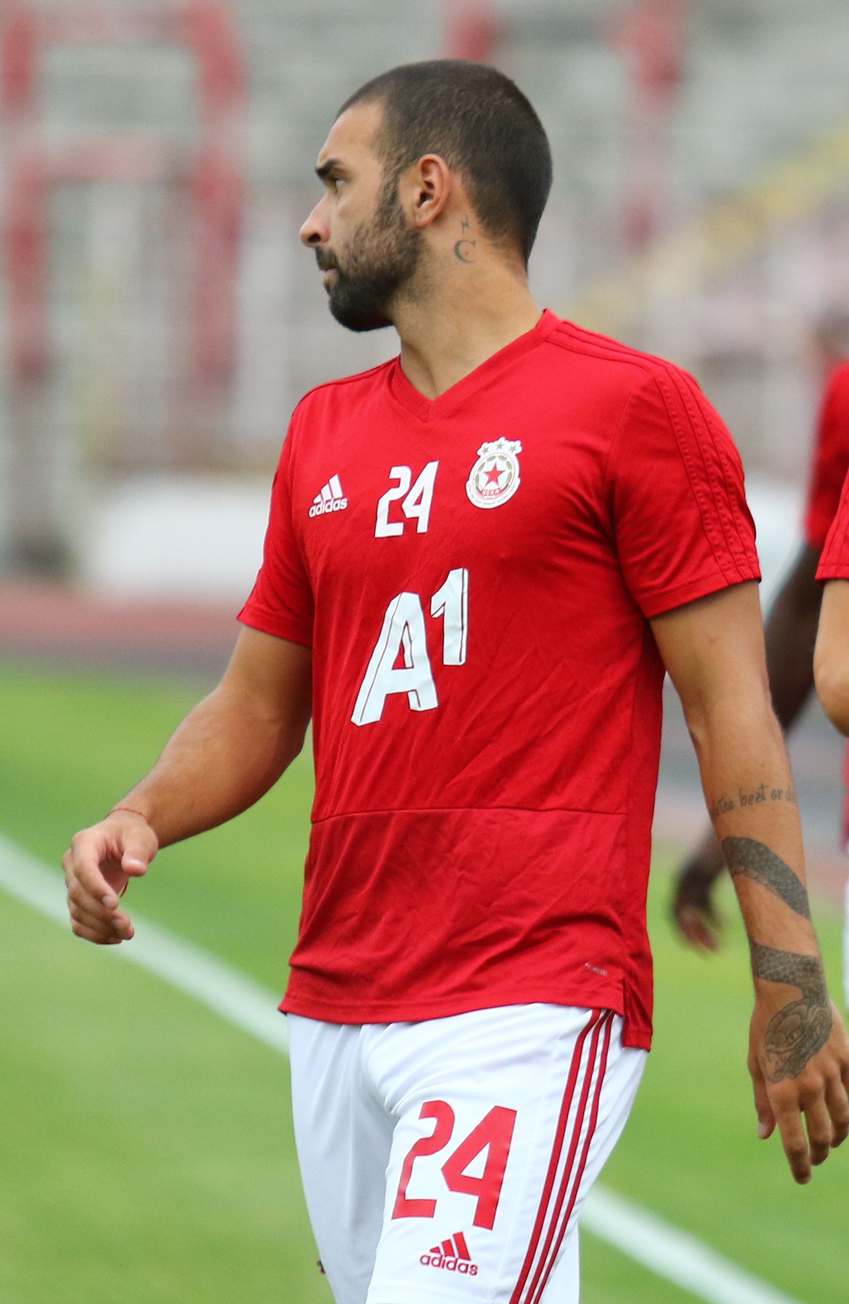 Nuno Tomás - Portuguese professional footballer who plays as a central defender for Bulgarian club PFC CSKA Sofia.